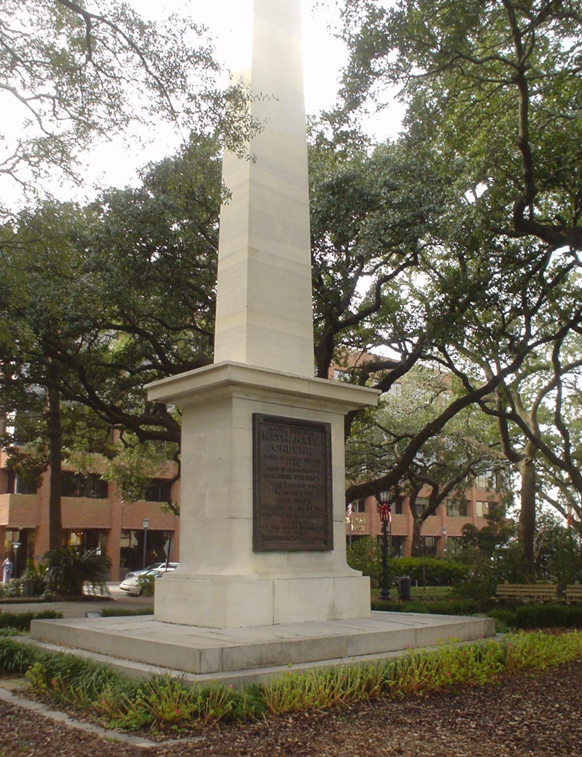 Monument to and burial site of Nathaniel Greene in Johnson Square, Savannah, Georgia. Greene was an American General in the Revolutionary war. From Rhode Island, died near Savannah. I donate this photo to the public domain